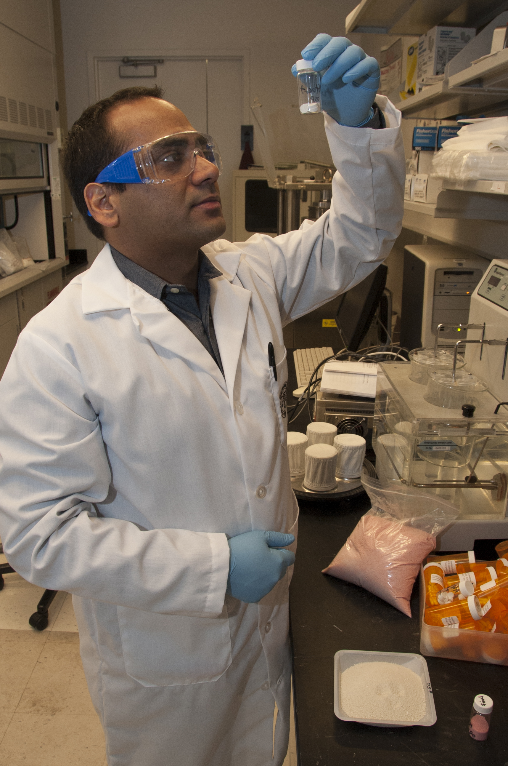 An FDA scientist evaluates beads used for coating a controlled-release product. When evidence arises that an FDA-approved generic drug is less effective than previously thought, FDA’s Division of Product Quality Research may recreate the drug from scratch and test it with improved methods. For more information about FDA's generic drug research, read this Consumer Update: FDA photo by Michael J. Ermarth